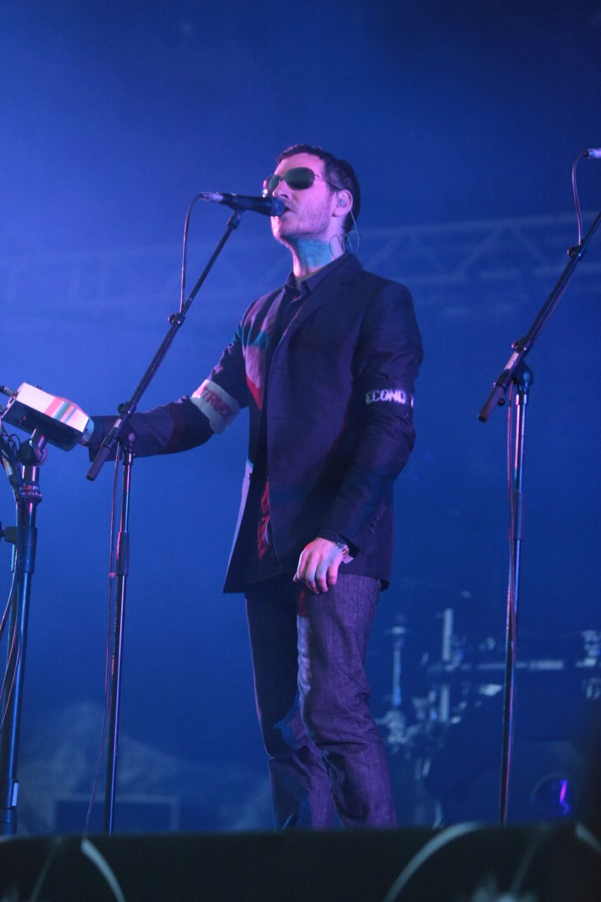 Massive Attack at the Eurockéennes 2008